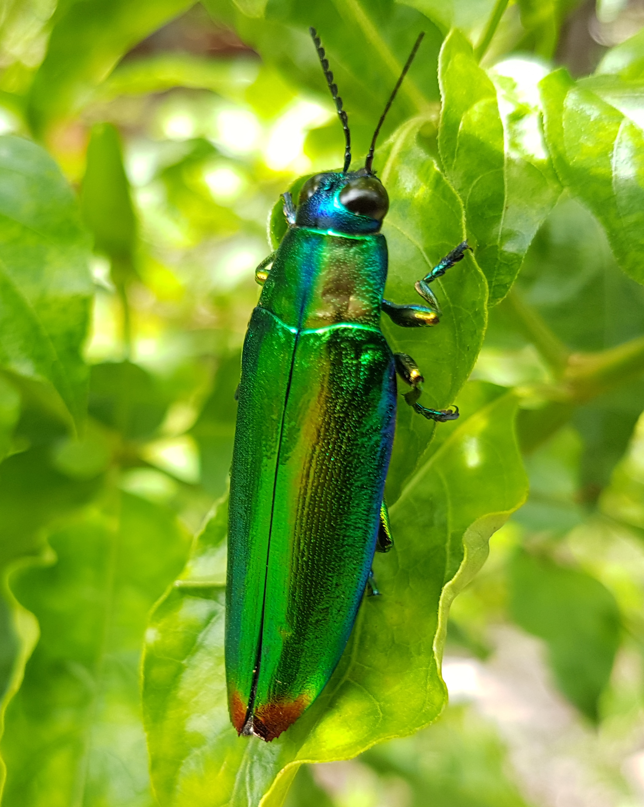 Jewel beetle (Chrysochroa fulminans), Mindanao, Philippines